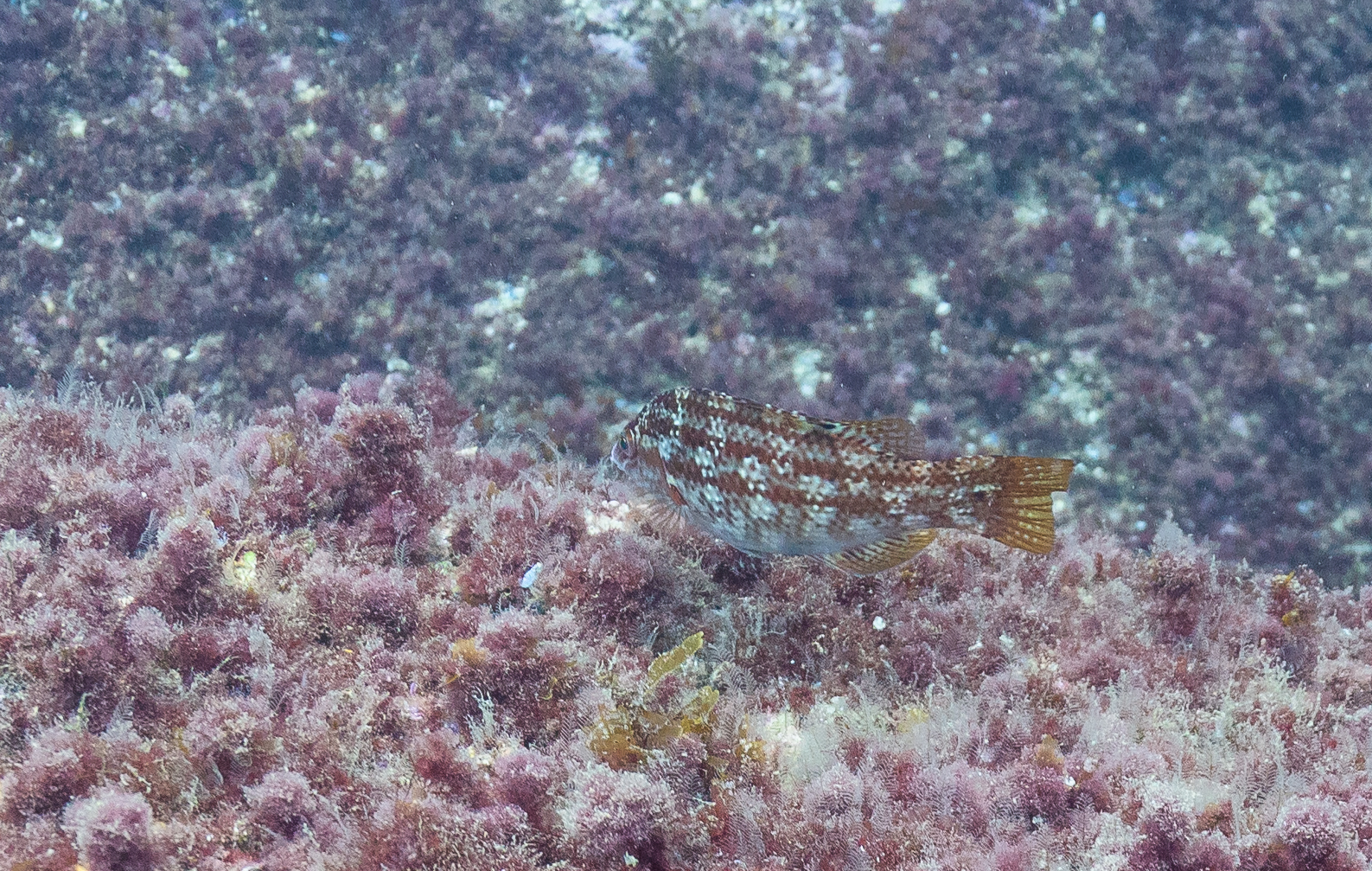 Comber (Serranus cabrilla), Mouro Island, Santander, Spain